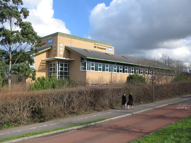 NHS transplant service office A view looking to the northeast from the A4174 Ring Road towards an office of the NHS UK transplant service.